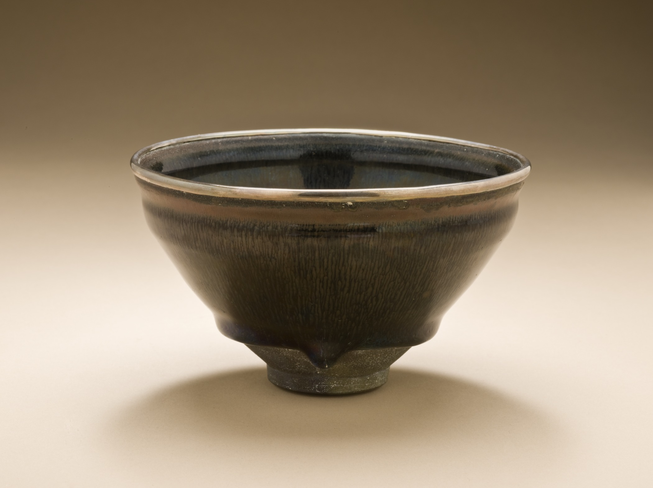 Japan, 19th century Furnishings; Serviceware Satsuma ware; stoneware with iron glaze Gift of Caroline and Jarred Morse (M.80.219.18) Japanese Art